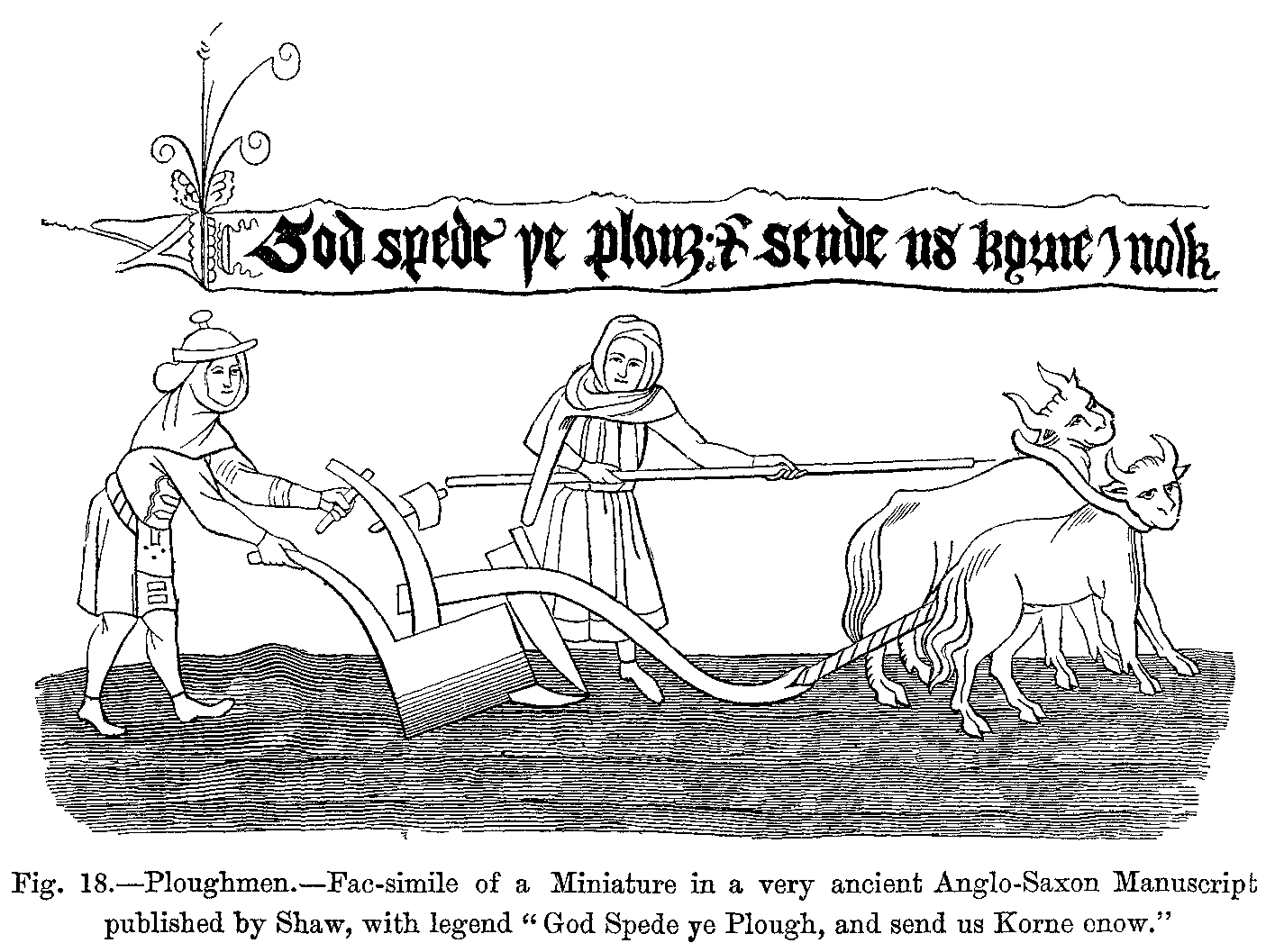 Ploughmen.--Fac-simile of a Miniature in a mediaeval manuscript published by Shaw, with legend "God Spede þe plough, and sende us korne enow." Note that "þe" should be transliterated "the". Project Gutenberg text 10940 Title: Manners, Custom and Dress During the Middle Ages and During the Renaissance Period